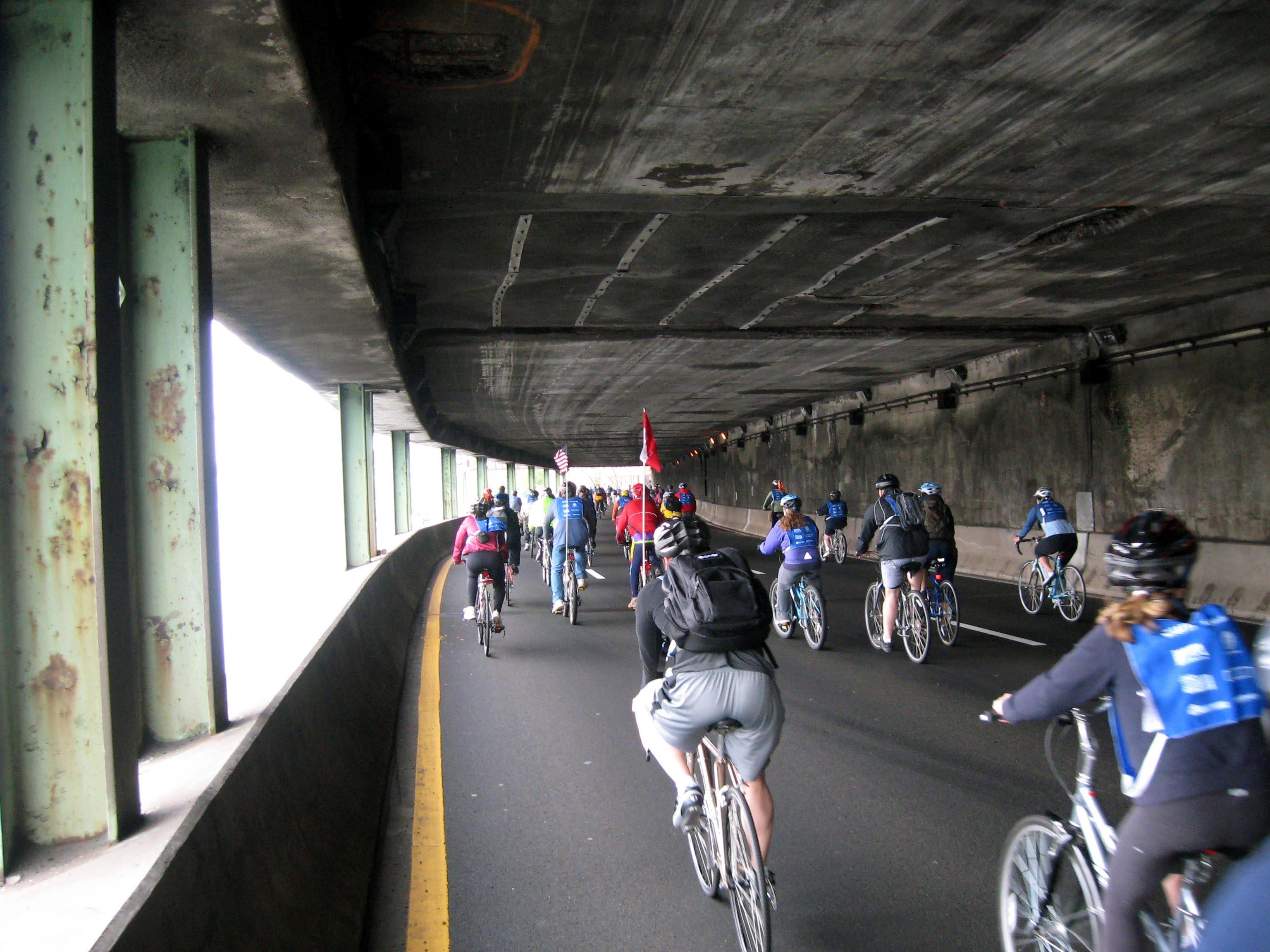 Pedalling south under Carl Schurz Park on FDR_Drive on a cloudy late morning Five Borough Bike Tour.